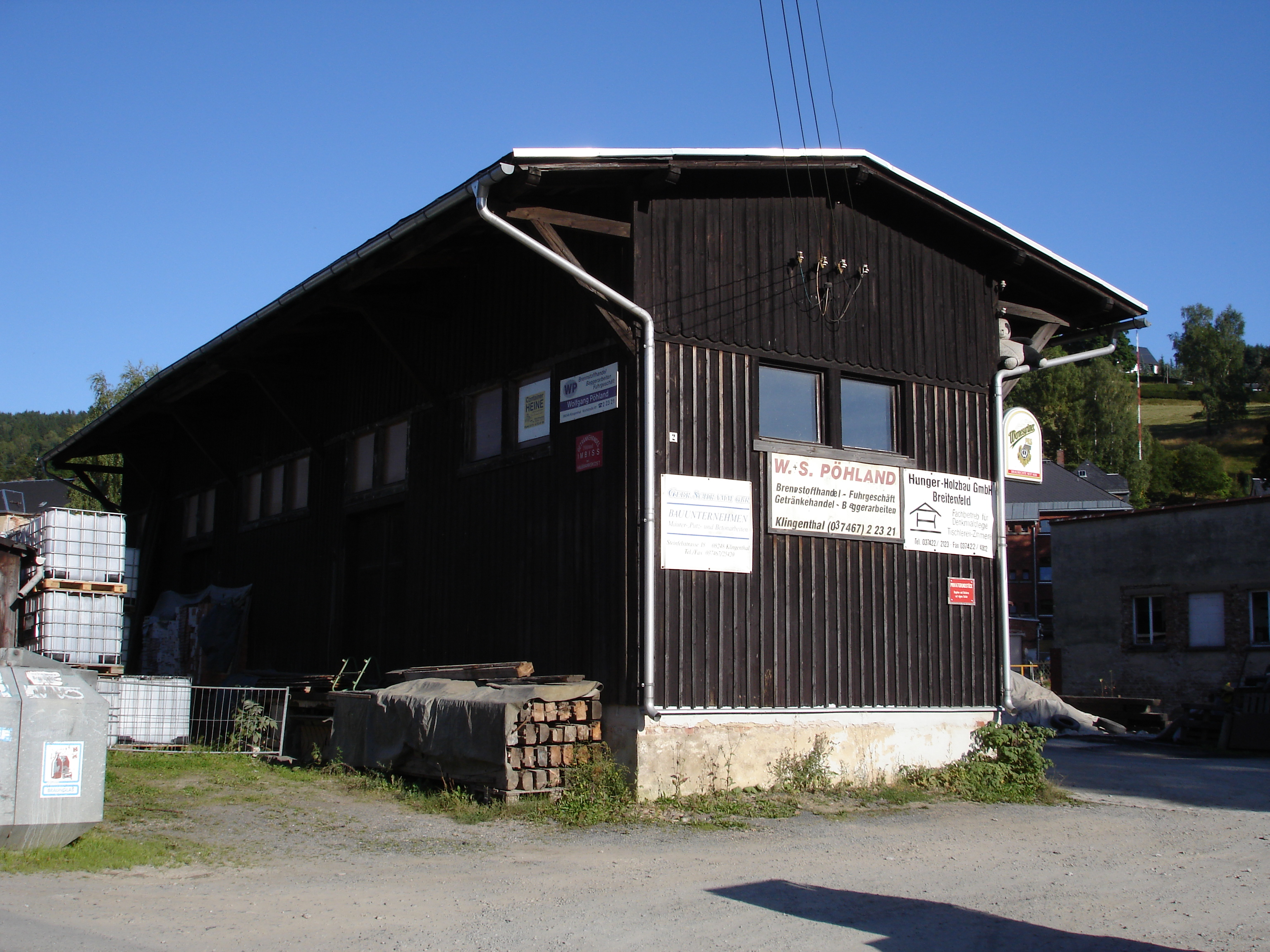 station Brunndöbra, Saxony, Germany